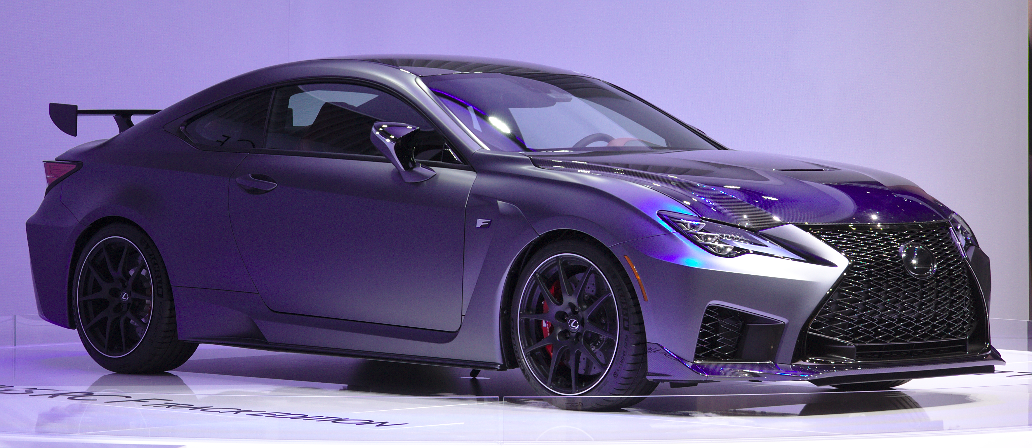 Lexus RC-F Track Edition at Geneva Motor Show 2019